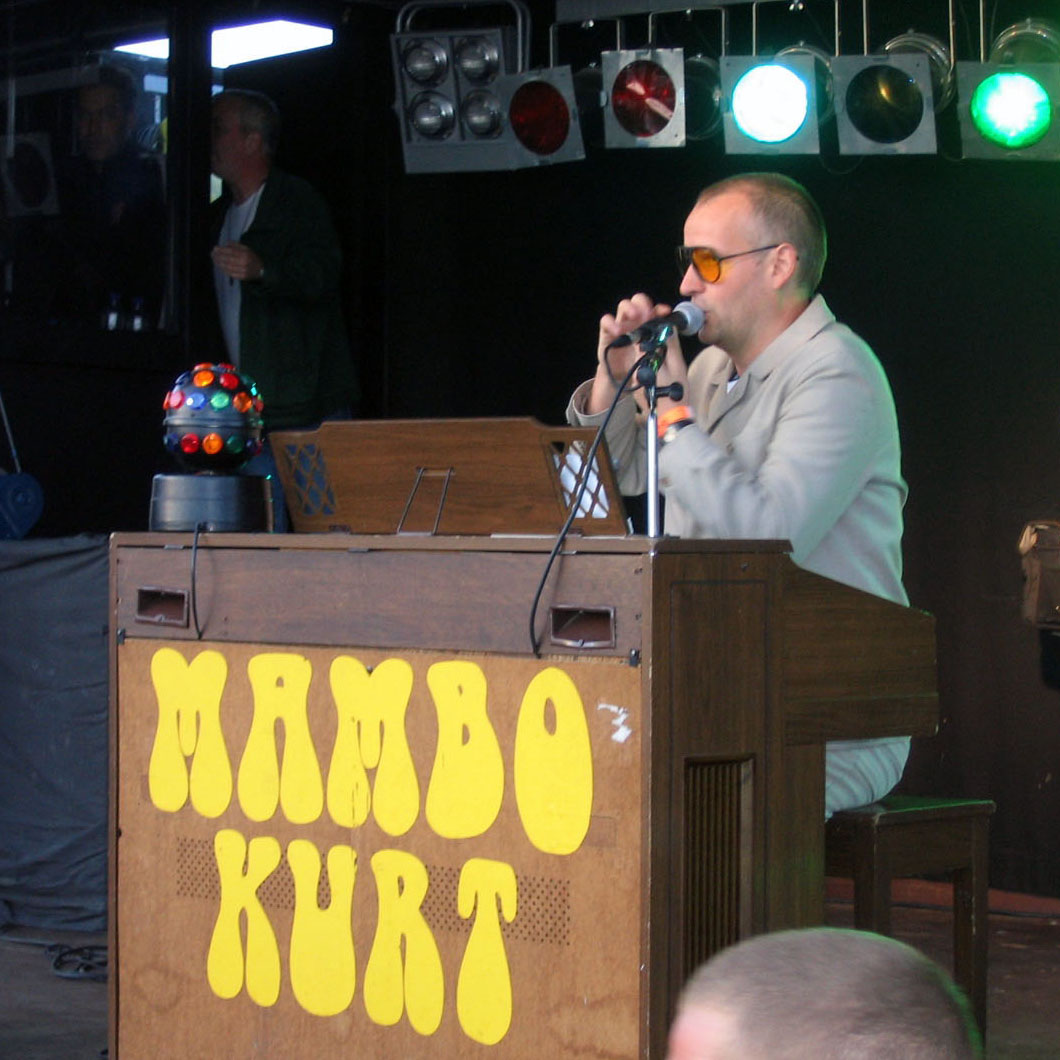 Mambo Kurt performing at Wacken Open Air 2005